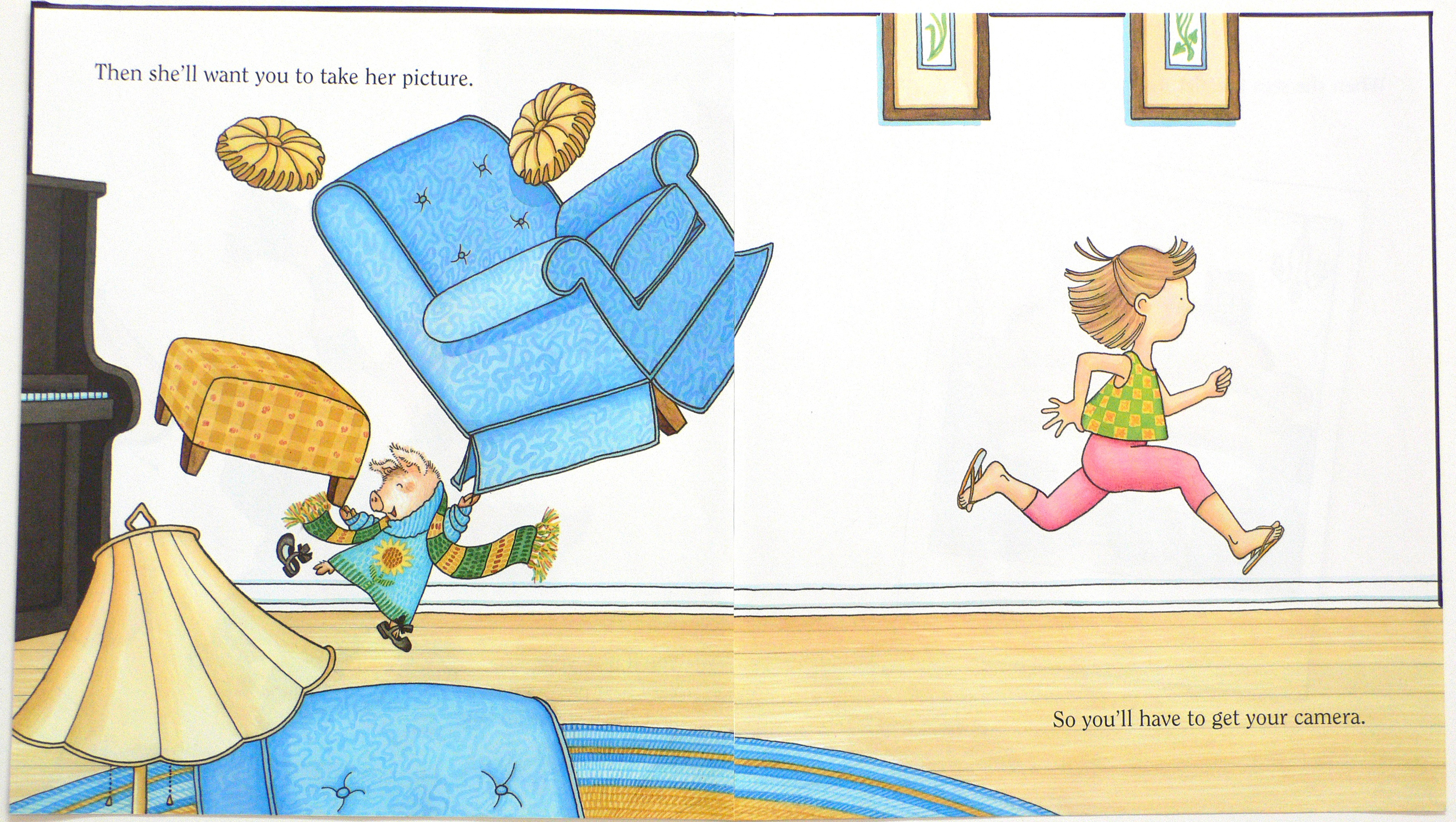 If You Give a Pig a Pancake (1) illustrated by Felicia Bond (illustrator, children's book illustrator), and written by Laura Numeroff